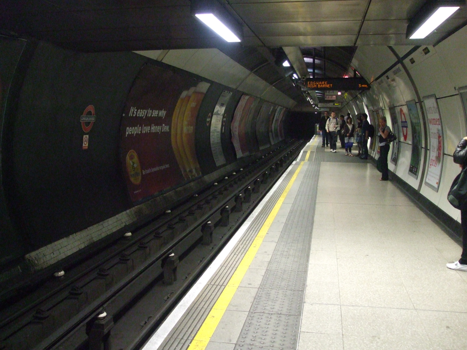 Northbound Northern line platform at London Bridge tube station, looking south. Right-hand running here.